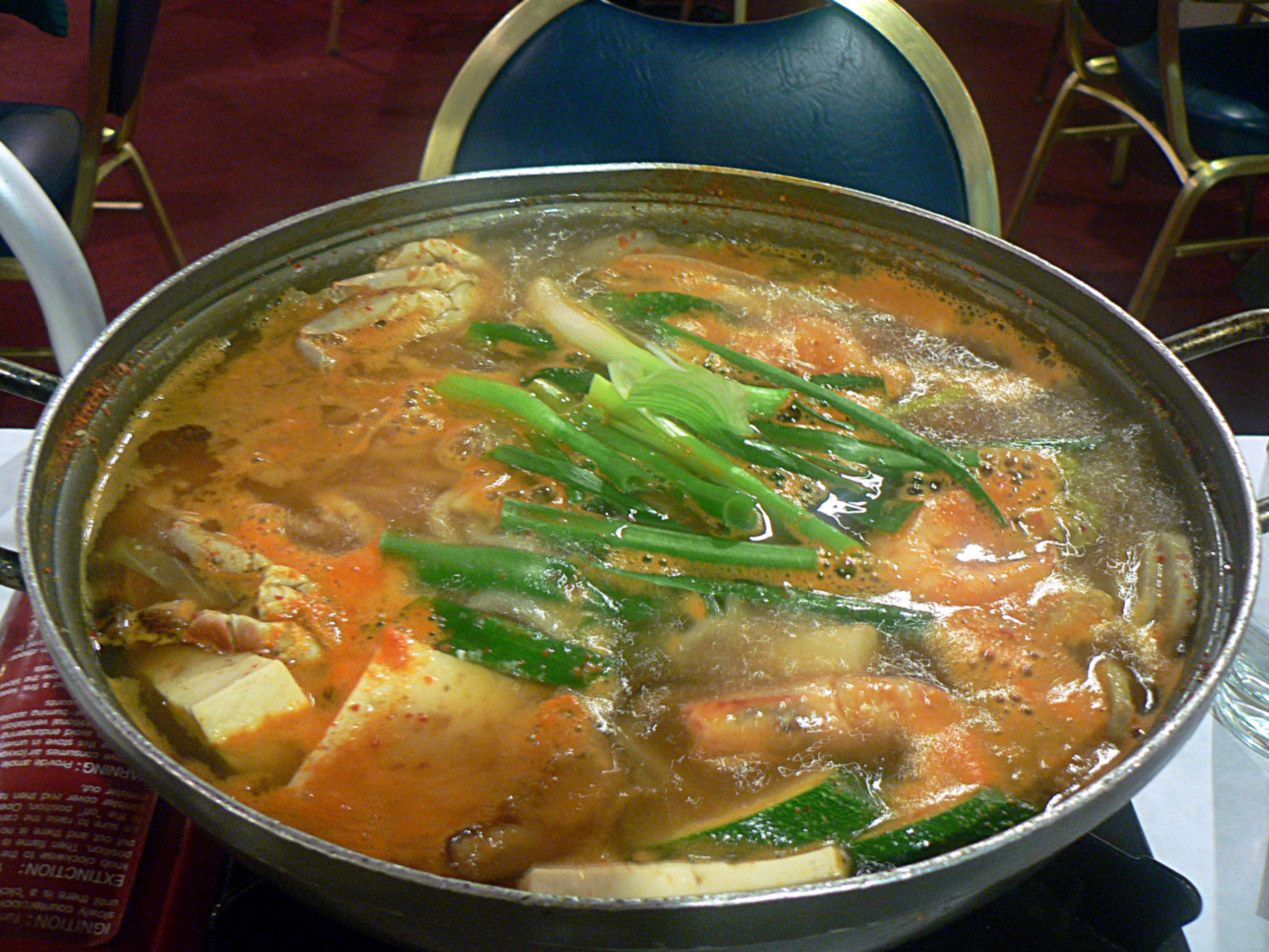 해물매운탕, Haemul maeuntang, seafood stew.